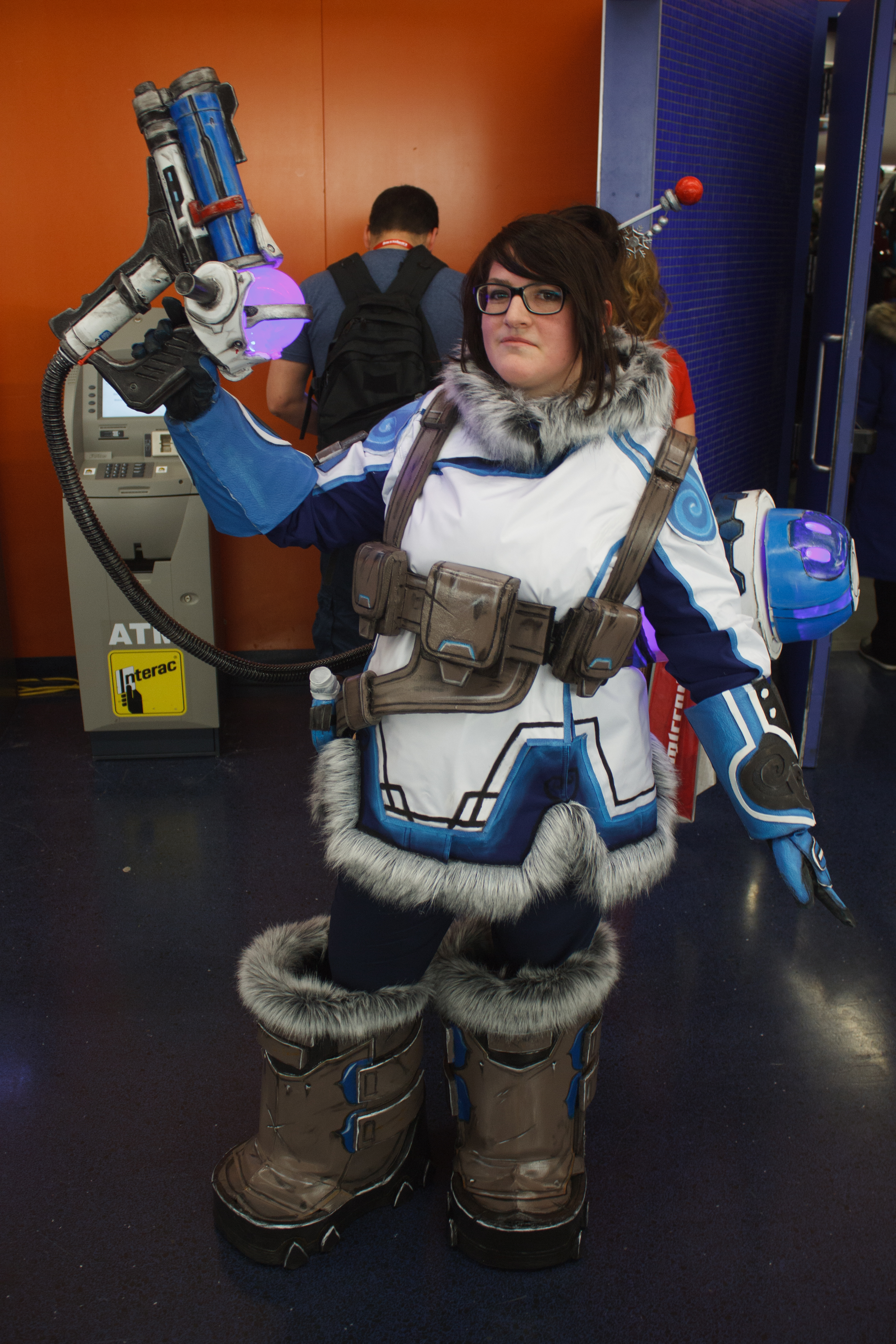 Cosplay on Saturday, day two, of the Montreal Comiccon 2016.